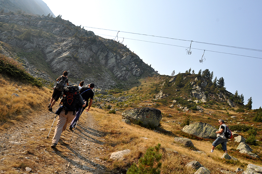 Brezovica Mountain_05